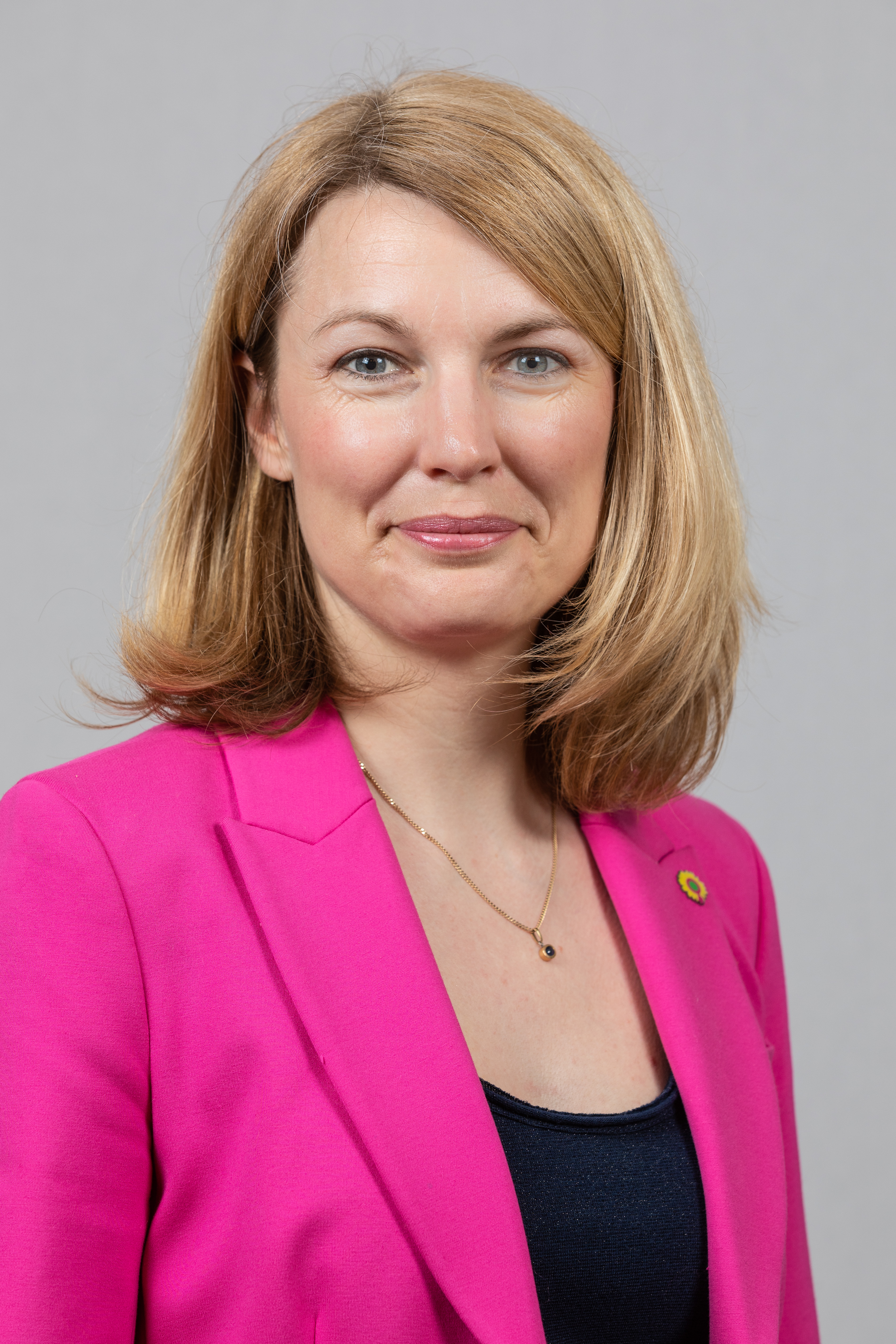 Kathrin Anders, Landtag of Hesse, Wiesbaden, April 3rd, 2019